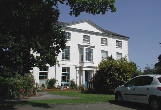 Sutton House, Sutton-on-Hull, Hull, East Riding of Yorkshire, England.One of the 'big houses' in the village of Sutton on Hull, where some of the more well-to-do Hull families chose to live away from the dirt and smells of the port. This house on the east side of Ings Road is now a nursing home.